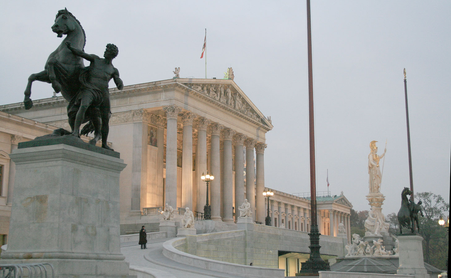 The Parliament Building in Vienna, Austria.